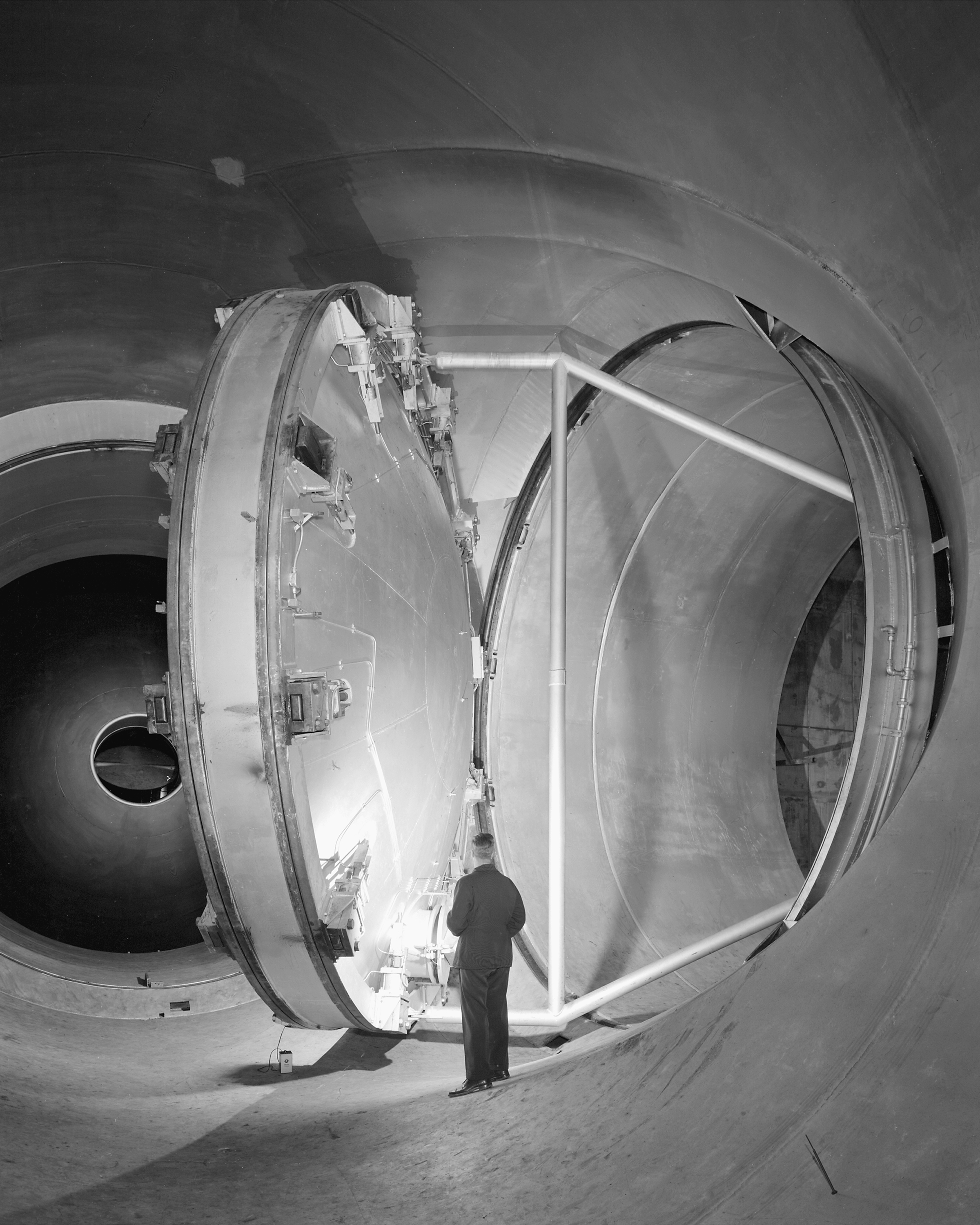 24 foot diameter swinging valve at various stages of opening and closing in the 10ft x 10ft Supersonic Wind Tunnel.